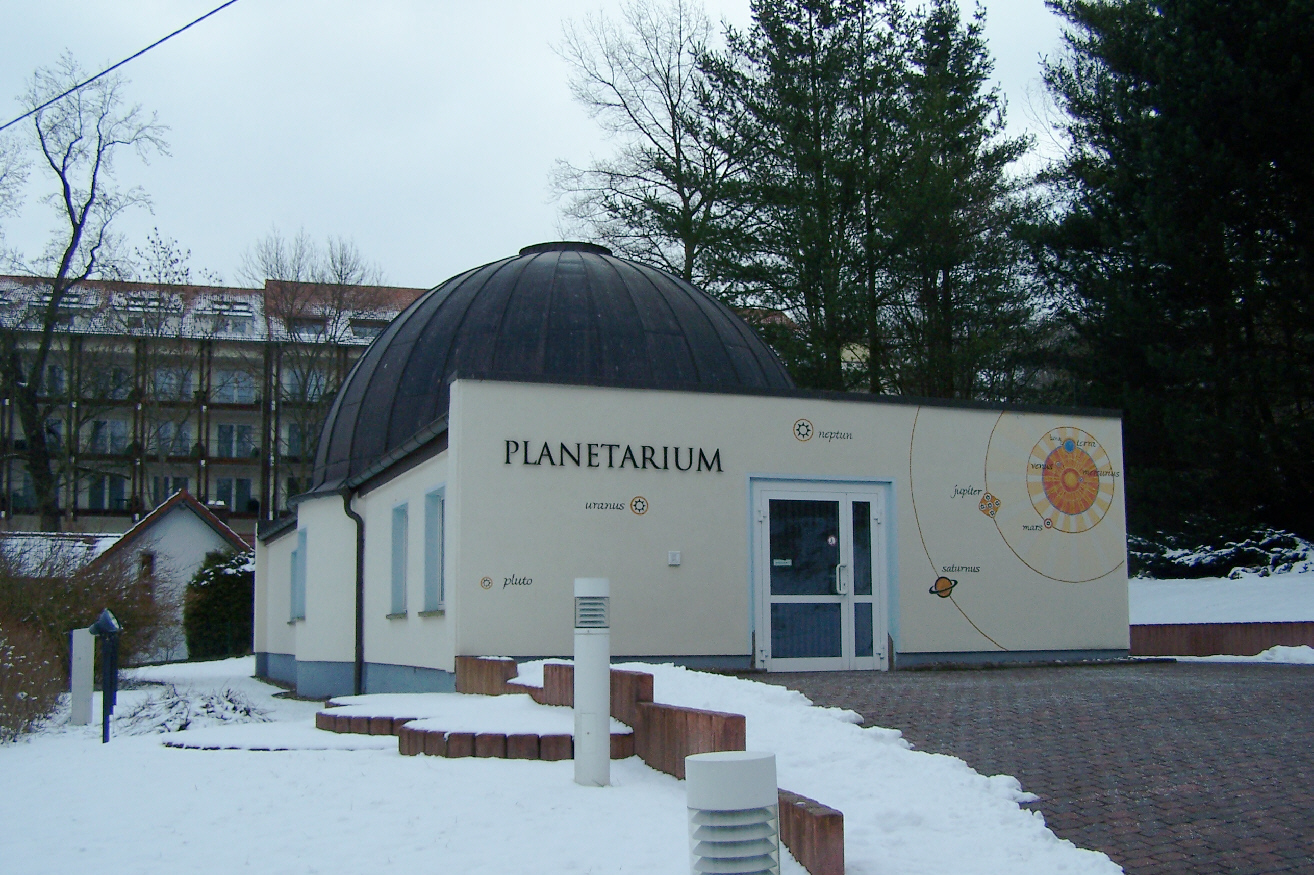 The planetarium in Bad Salzungen.